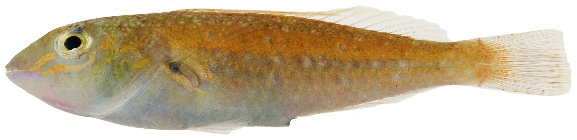 Cryptotomus roseus Cope, 1871—bluelip parrotfish, 61.5 mm SL, terminal male color phase. Photo by JT Williams.